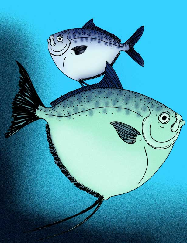 My reconstruction of the Paleocene fish, Mene purdyi, of Peru, compared with Mene maculata (top) for size. (C) Stanton F. Fink